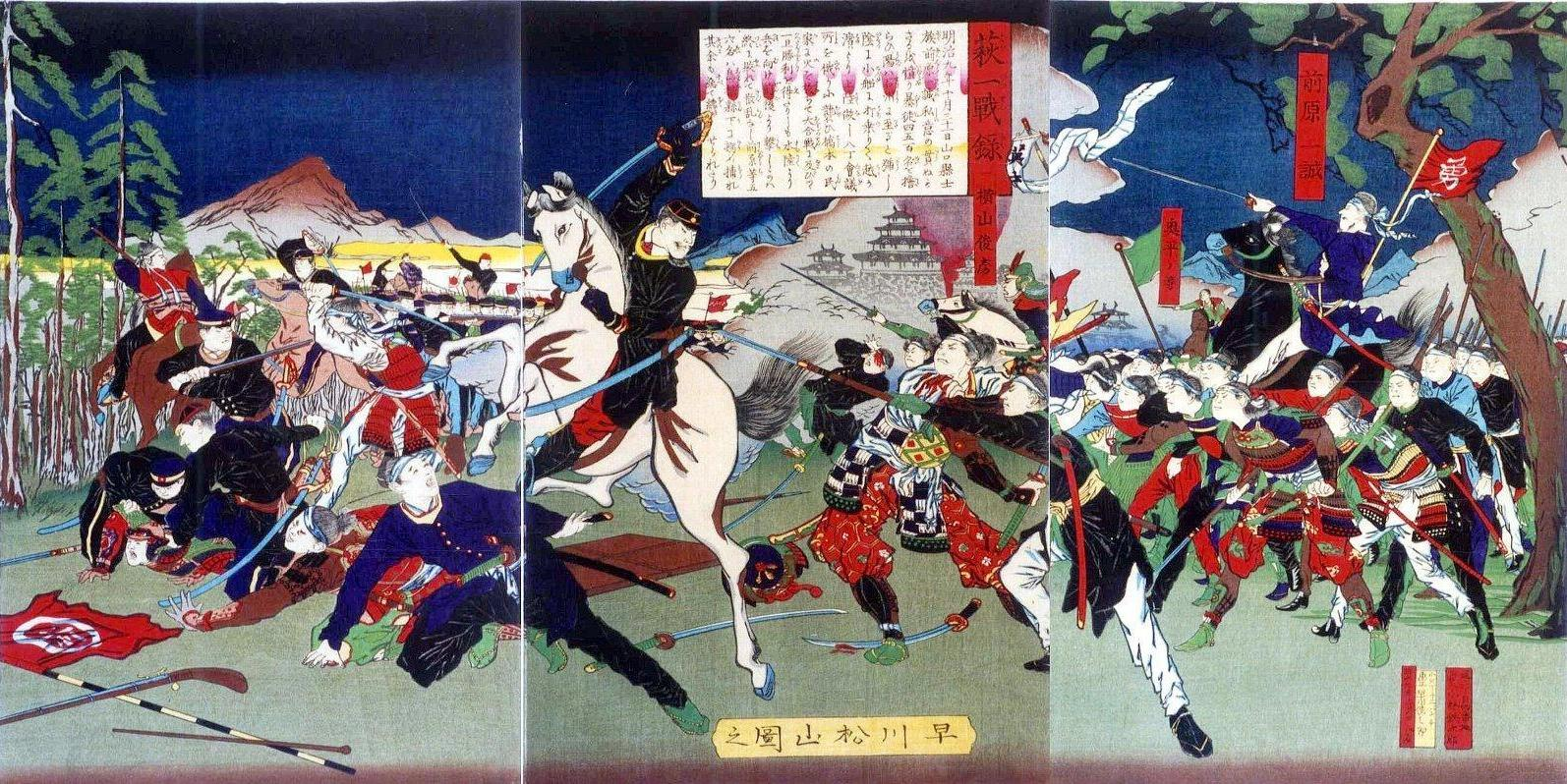 An ukiyo-e of Hagi Rebellion.